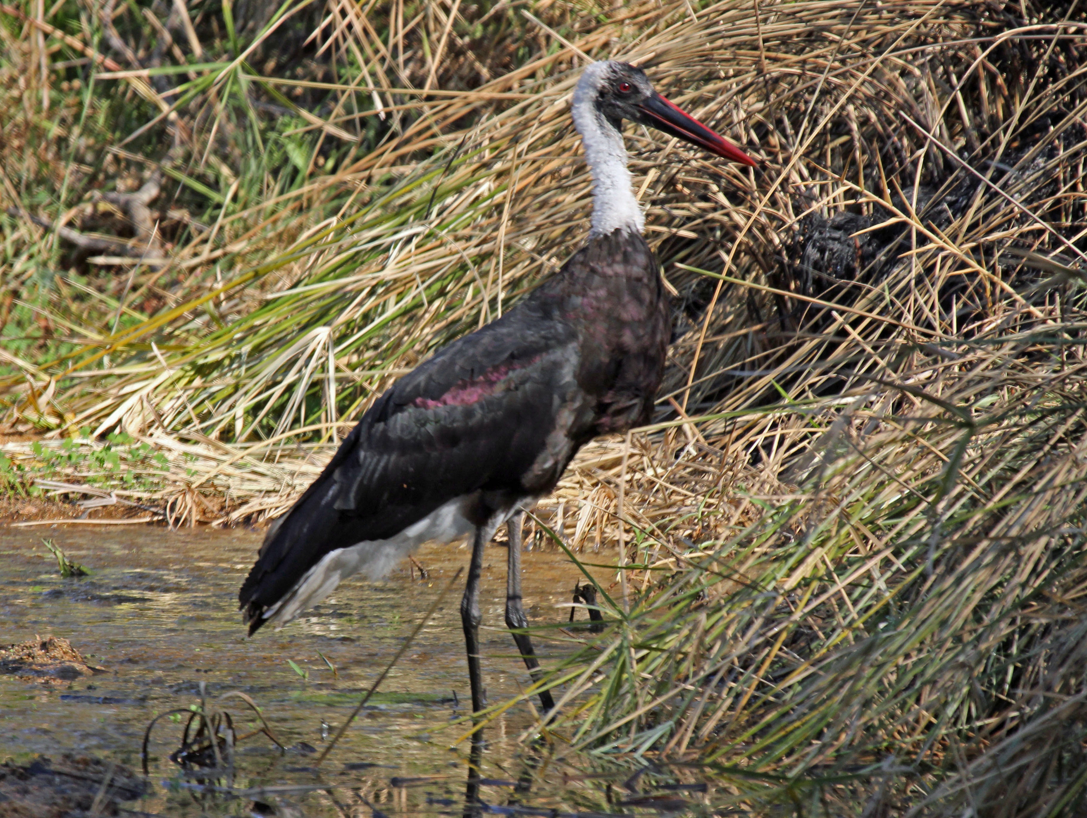 Wooly-necked stork (Ciconia episcopus) at Kruger National Park, South Africa